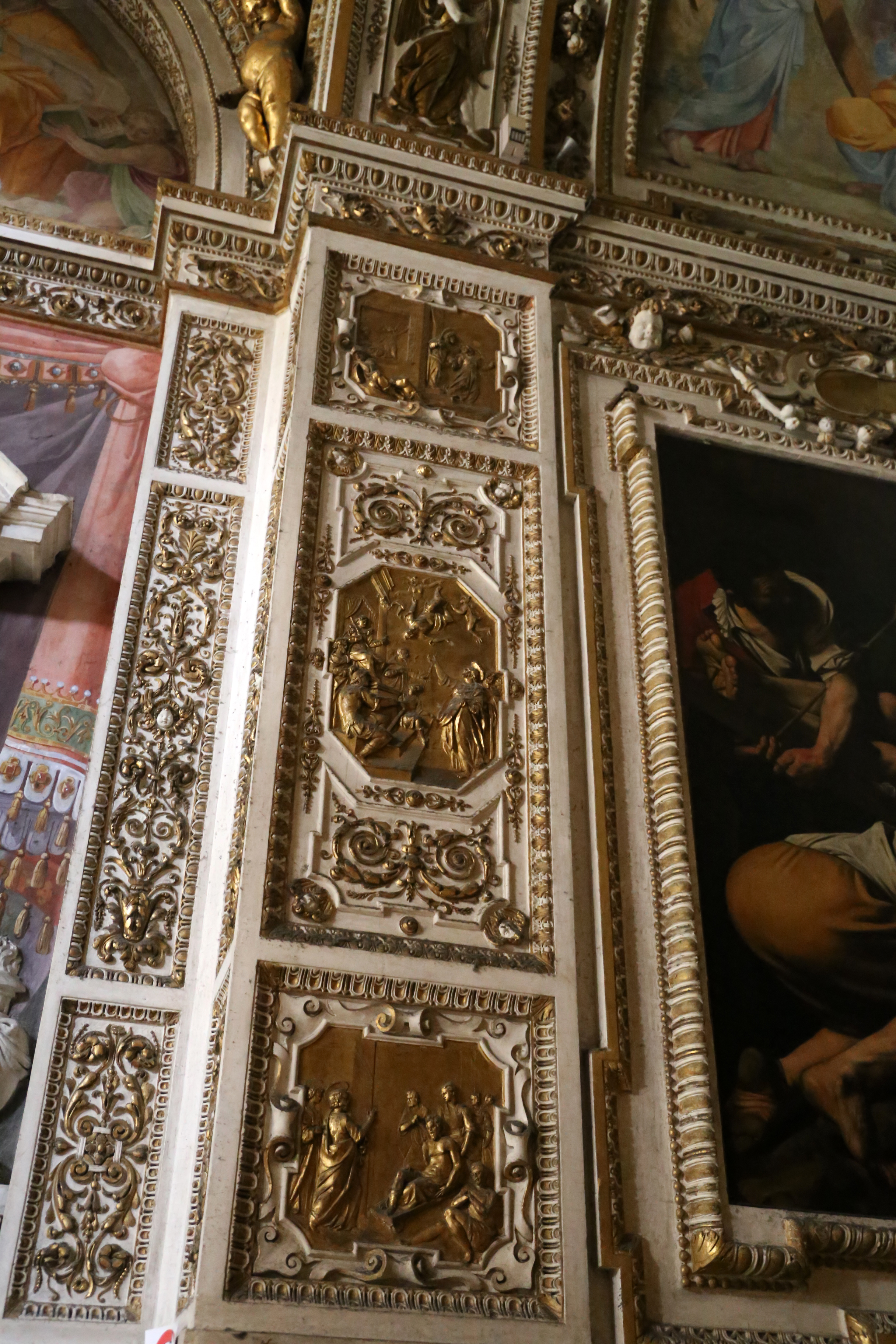 Santa Maria del Popolo (Rome) - Cappella Cerasi